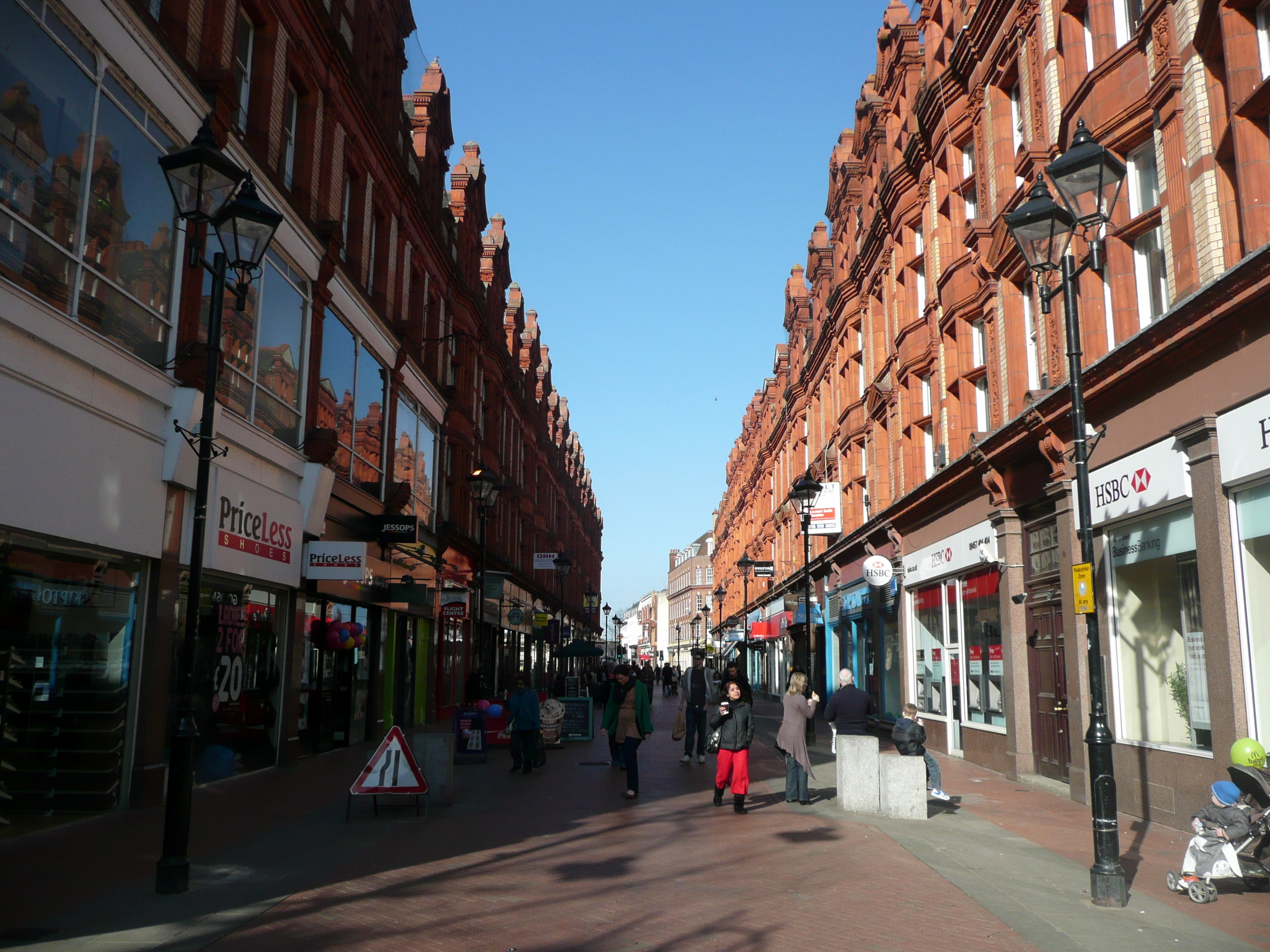 Queen Victoria Street, Reading. Cut through in 1900 and designed by S S Stallwood and C Smith and Son